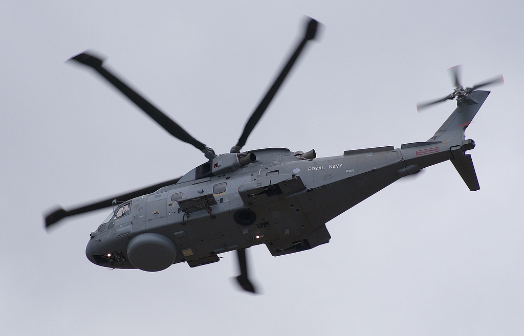 Southport air show 2009